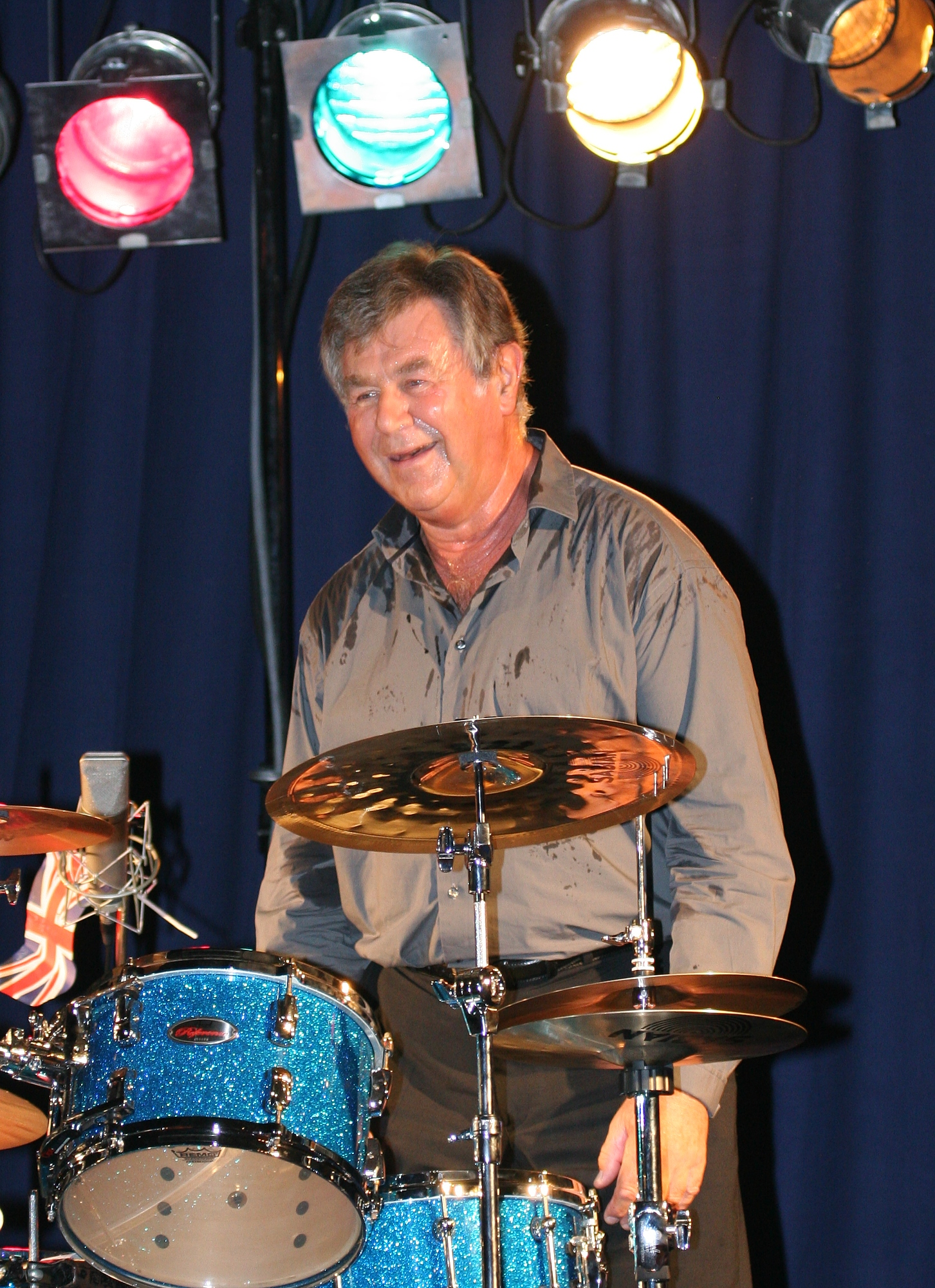 Pete York after playing a drum solo in Helge Schneider's "Cirque du Kautz - Wullewupp Kartoffelsupp" at Circus Krone, Munich.